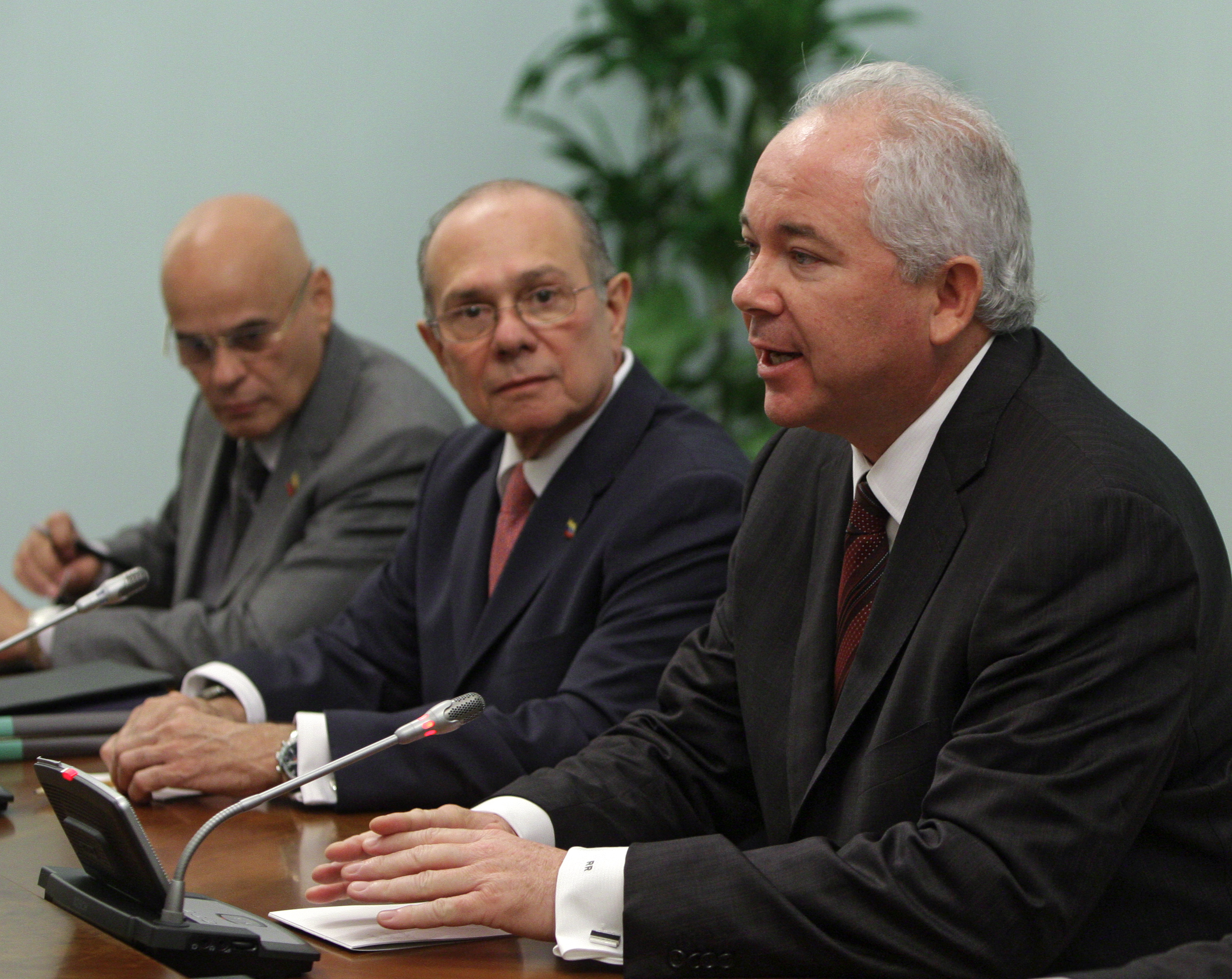 Rafael Dario Ramirez Carreno, Venezuelan Energy and Petroleum Minister during a meeting with Prime Minister Vladimir Putin